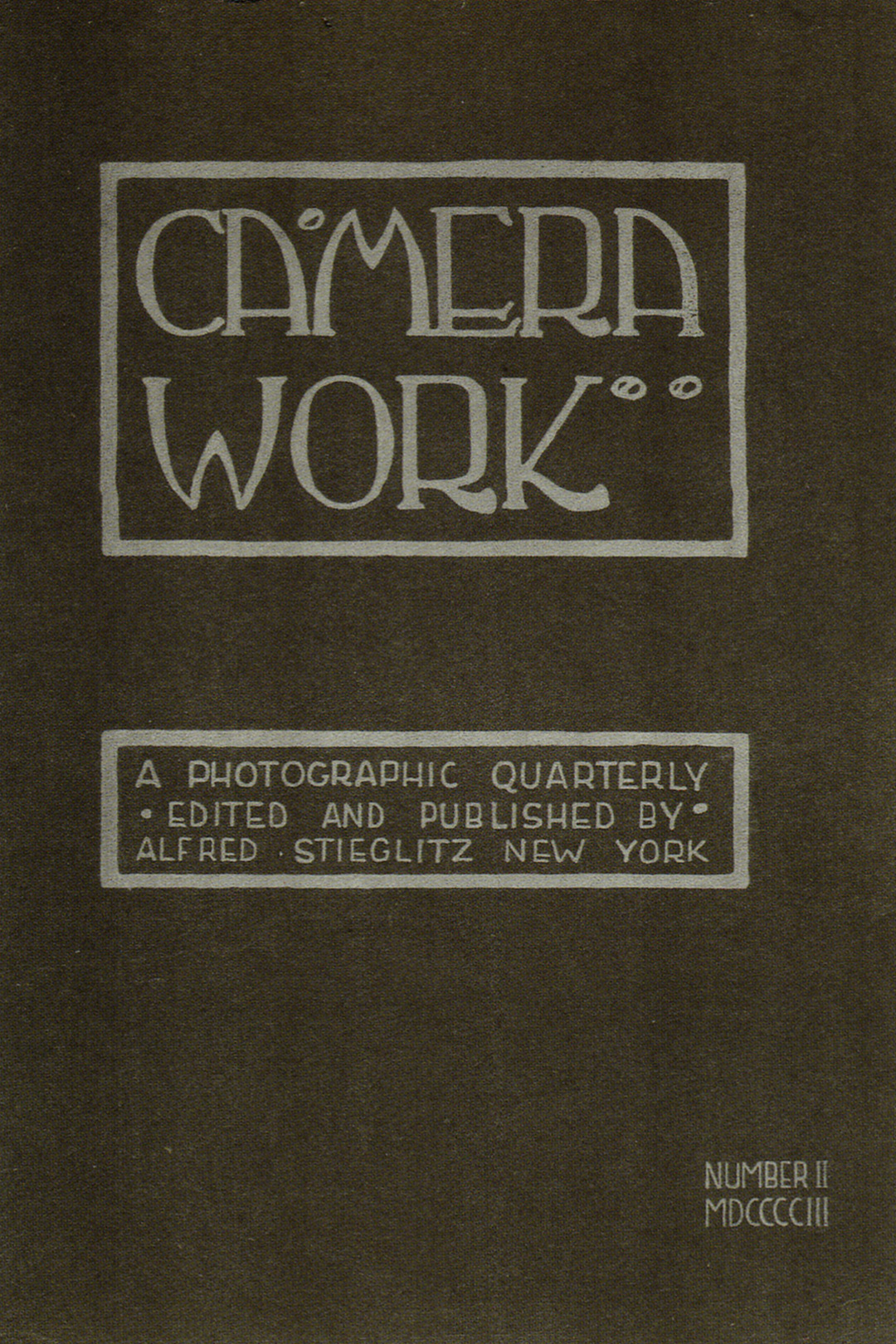 Cover of Camera Work, No 2, April 1903